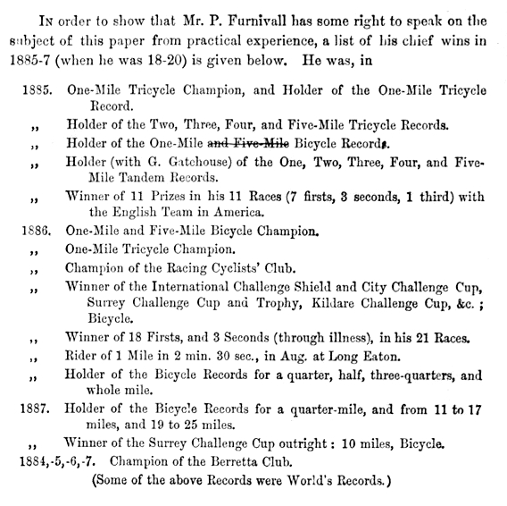 Percy Furnivall race results from Physical Training for High Speed Competitions. Chatto & Windus, London, 1888.